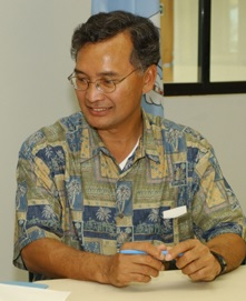 Rota,Commonwealth of Northern Mariana Islands (CNMI), December 20, 2002 -- FEMA Federal Coordinating Officer, David Fukutomi meets with Governor of CNMI Juan Babauta to sign the joint agreement to provide disaster assistance from FEMA. The island of Rota received a Presidentially declared disaster declaration after receiving widespread damages from Supertyphoon Pongsona. Photo by Andrea Booher/FEMA News Photo